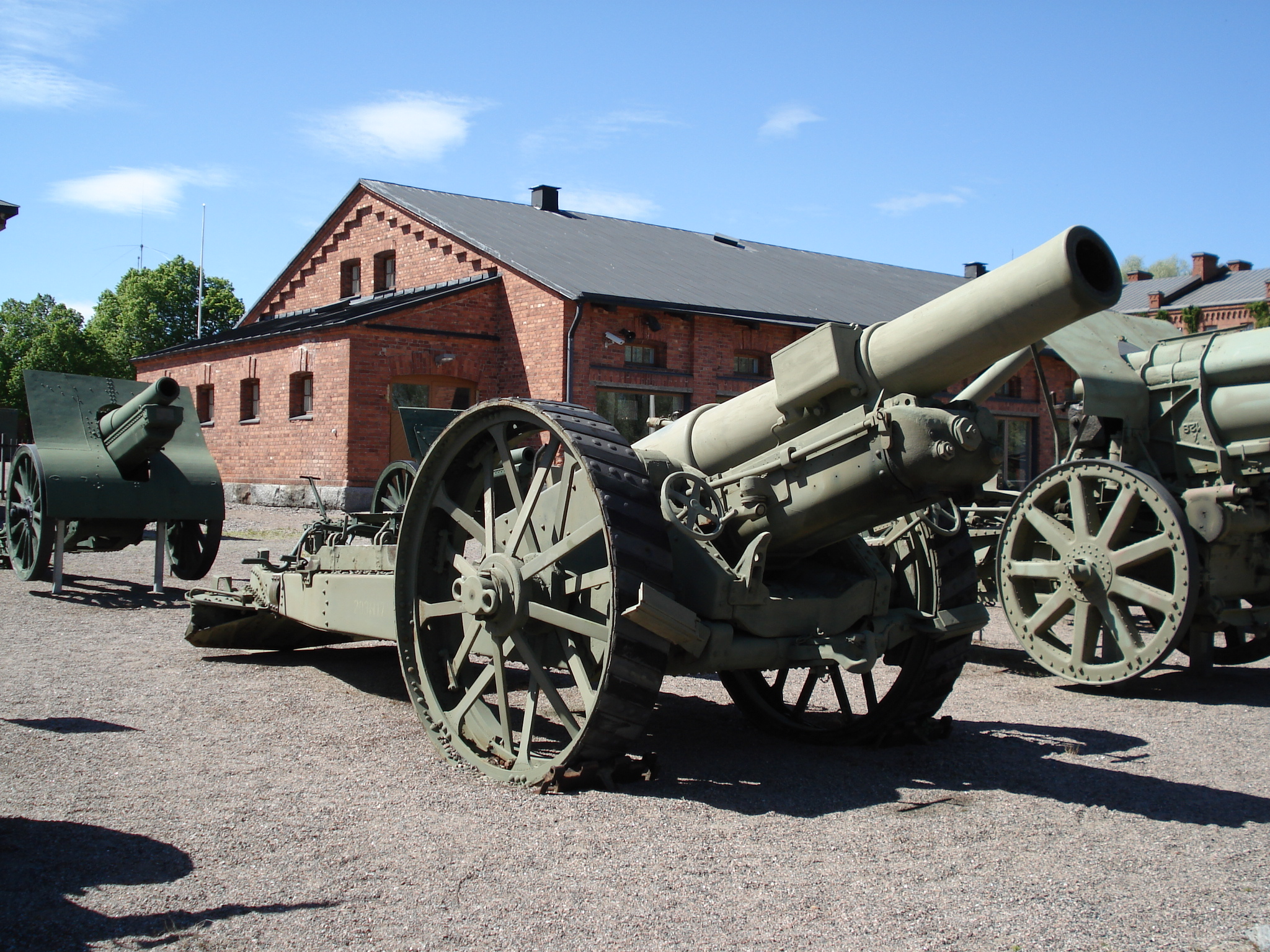 British-designed BL 8 inch Mk.6 howitzer, manufactured in USA as Model 1917. Displayed in Hämeenlinna Artillery Museum. It is visibly identified as Mk 6 by the short barrel and the guide ring around the barrel, which Mk 7 and 8 did not have. The stampings on the breech state: 8 IN. HOWITZER MODEL OF 1917 (VICKERS) MIDVALE NO 188 1918 VICKERS MARK VI. Photo taken on June 18, 2006. Source: Photo by me, User:Balcer.